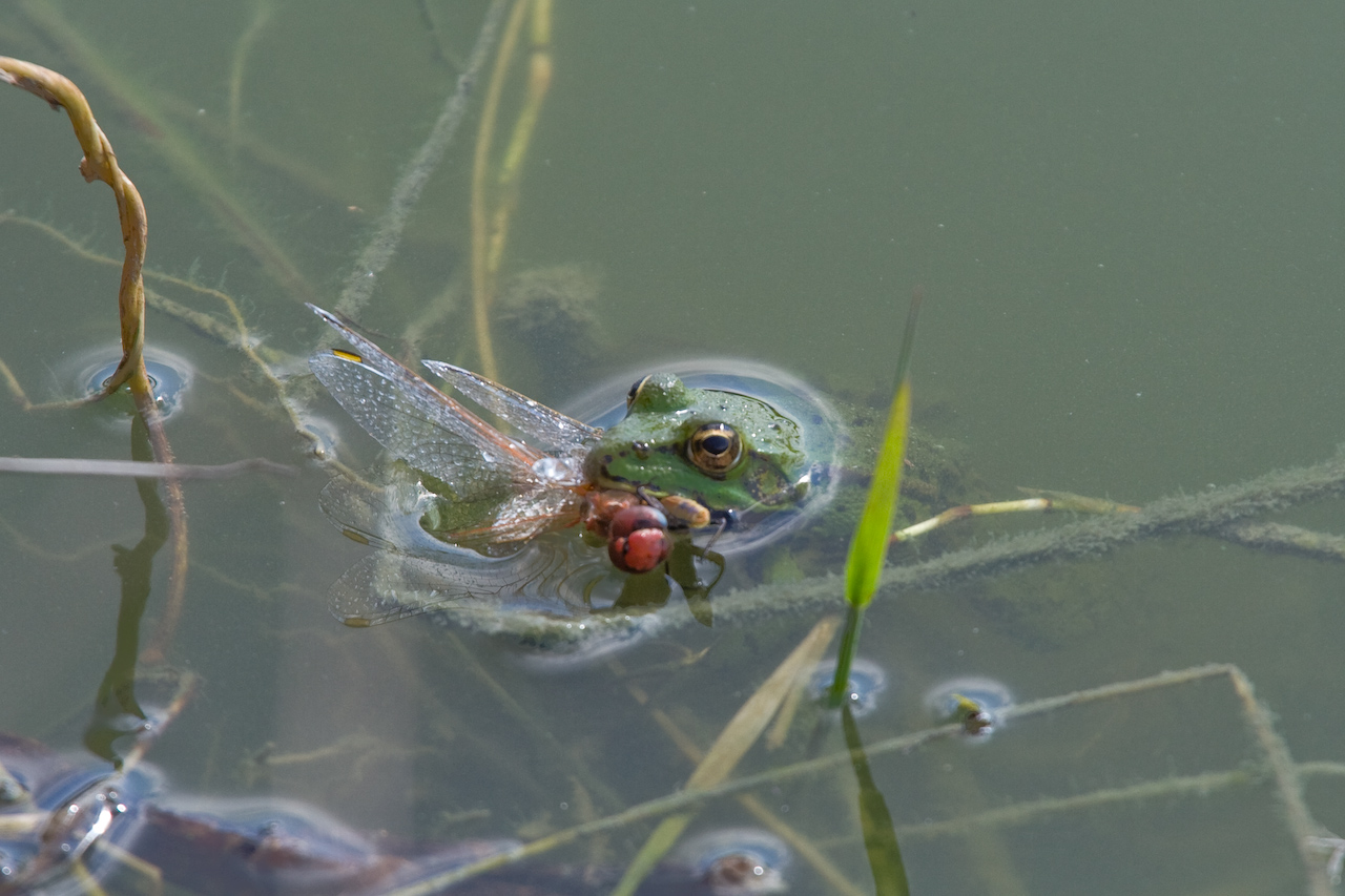 Not a perfect focus, but still acceptable.-- Probably Pelophylax